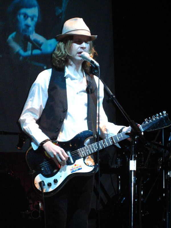 Beck performing at Yahoo! Hack Day (09/29/2006)